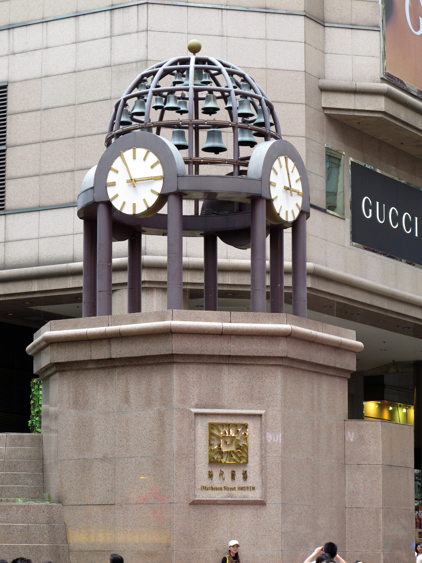 Times Square Hong Kong Clock Tower